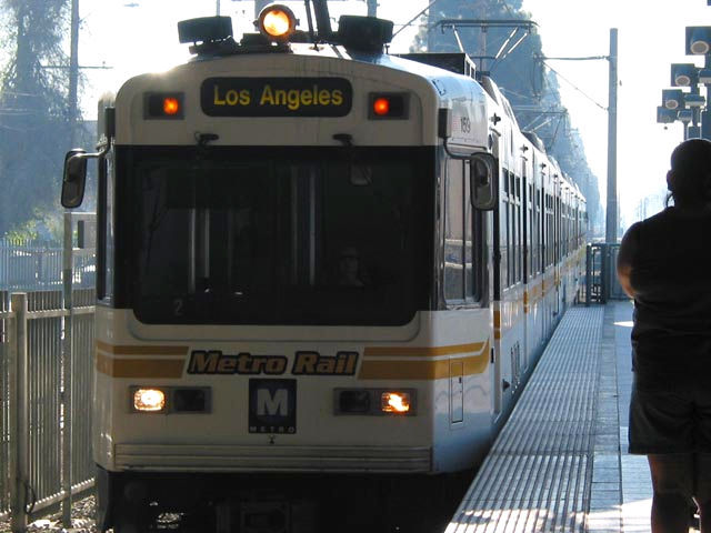 Blue Line train at the Imperial / Wilmington station